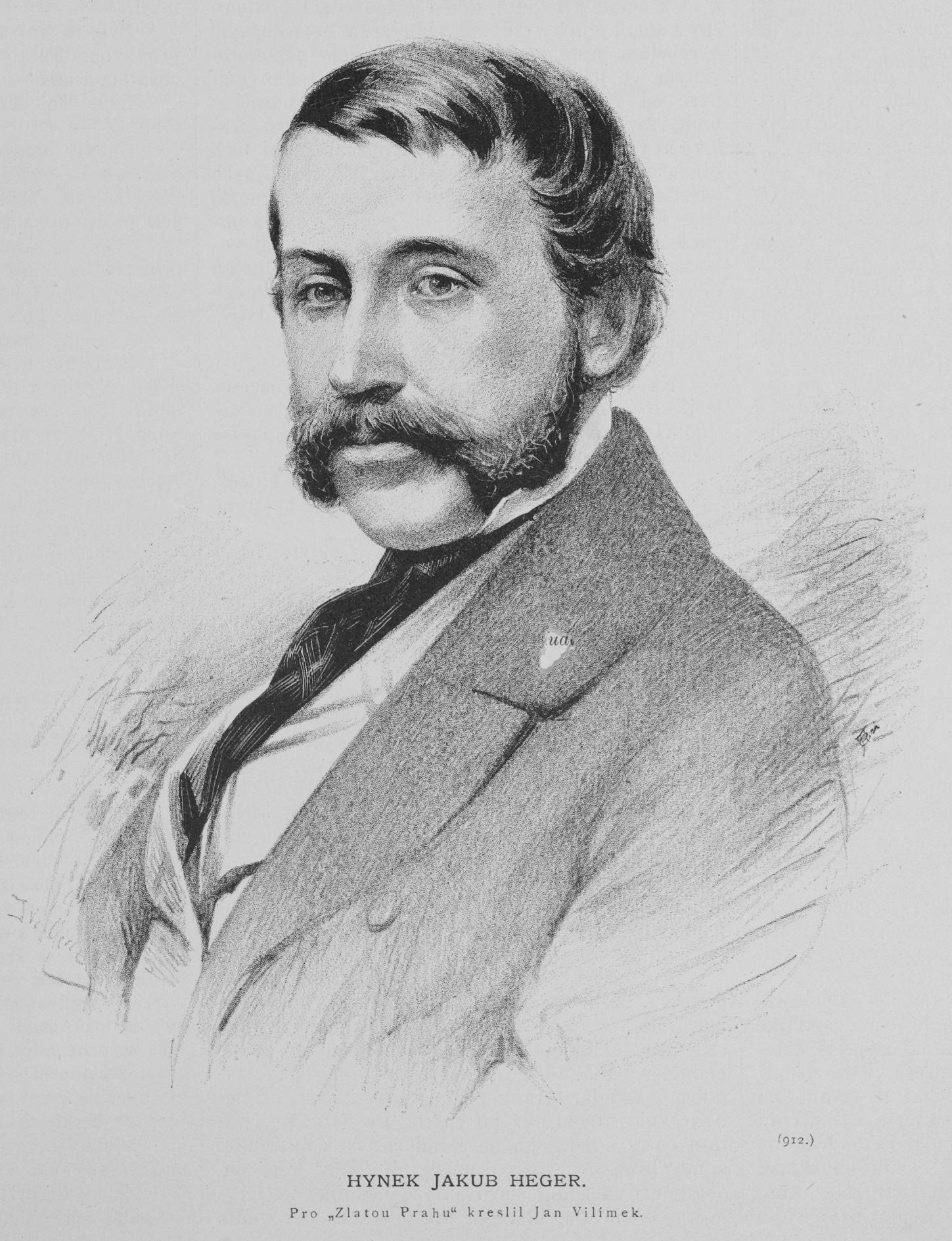 Portrait of Hynek Jakub Heger (in German known as Ignaz Jacob Heger; 1808 - 1854), Czech and Austrian promoter of stenography